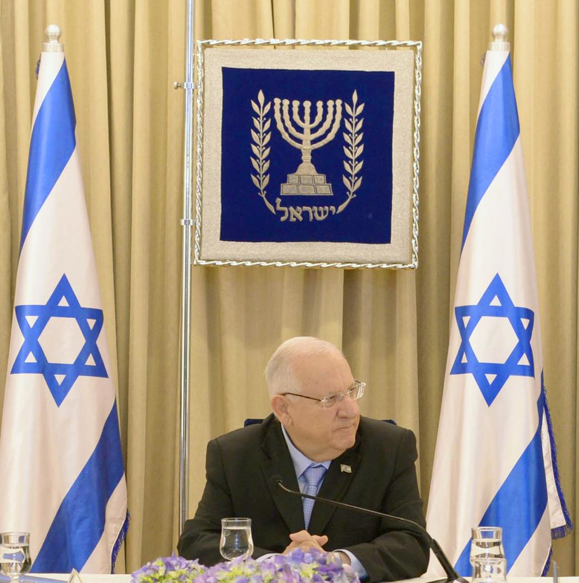 Reuven Rivlin, President of Israel, with the flag of Israel and the presidental banner